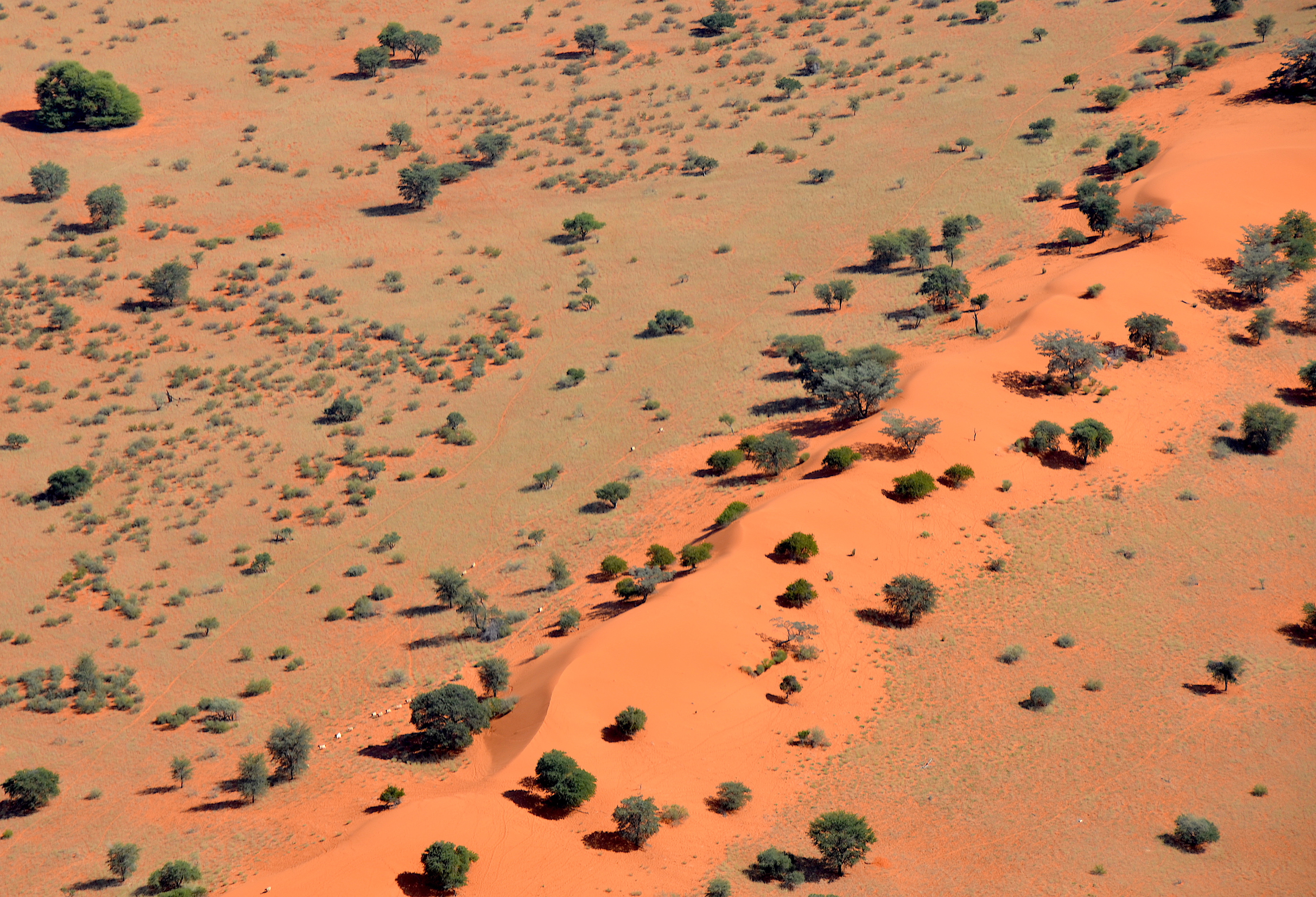 Overgrown sand dune in the Kalahari Desert in Namibia (2017)